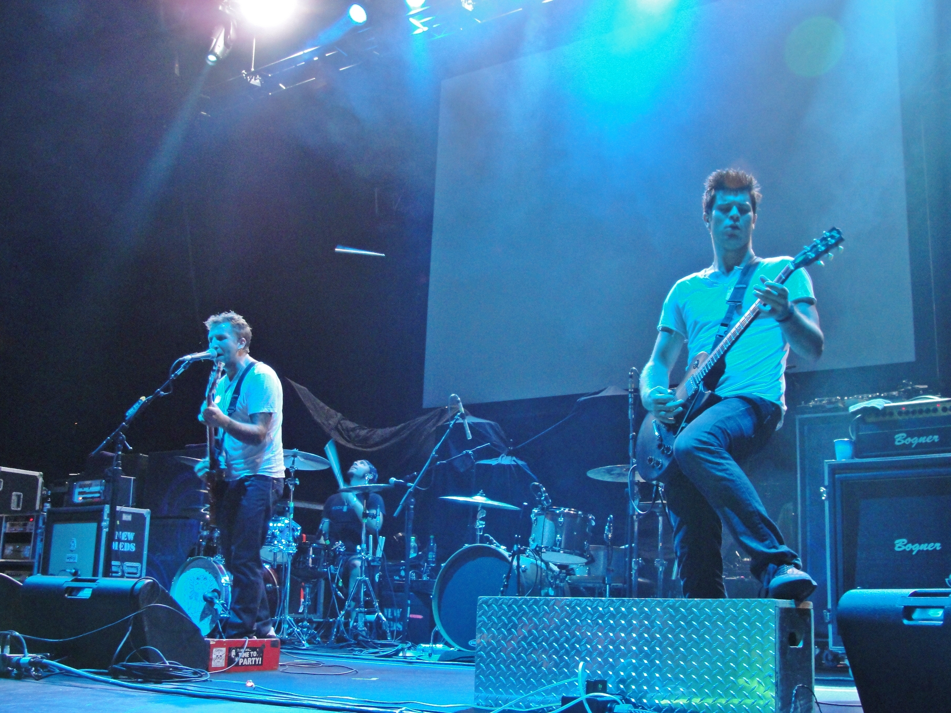 New Medicine performing live at the Laredo Energy Arena in Laredo, Texas August 14, 2012